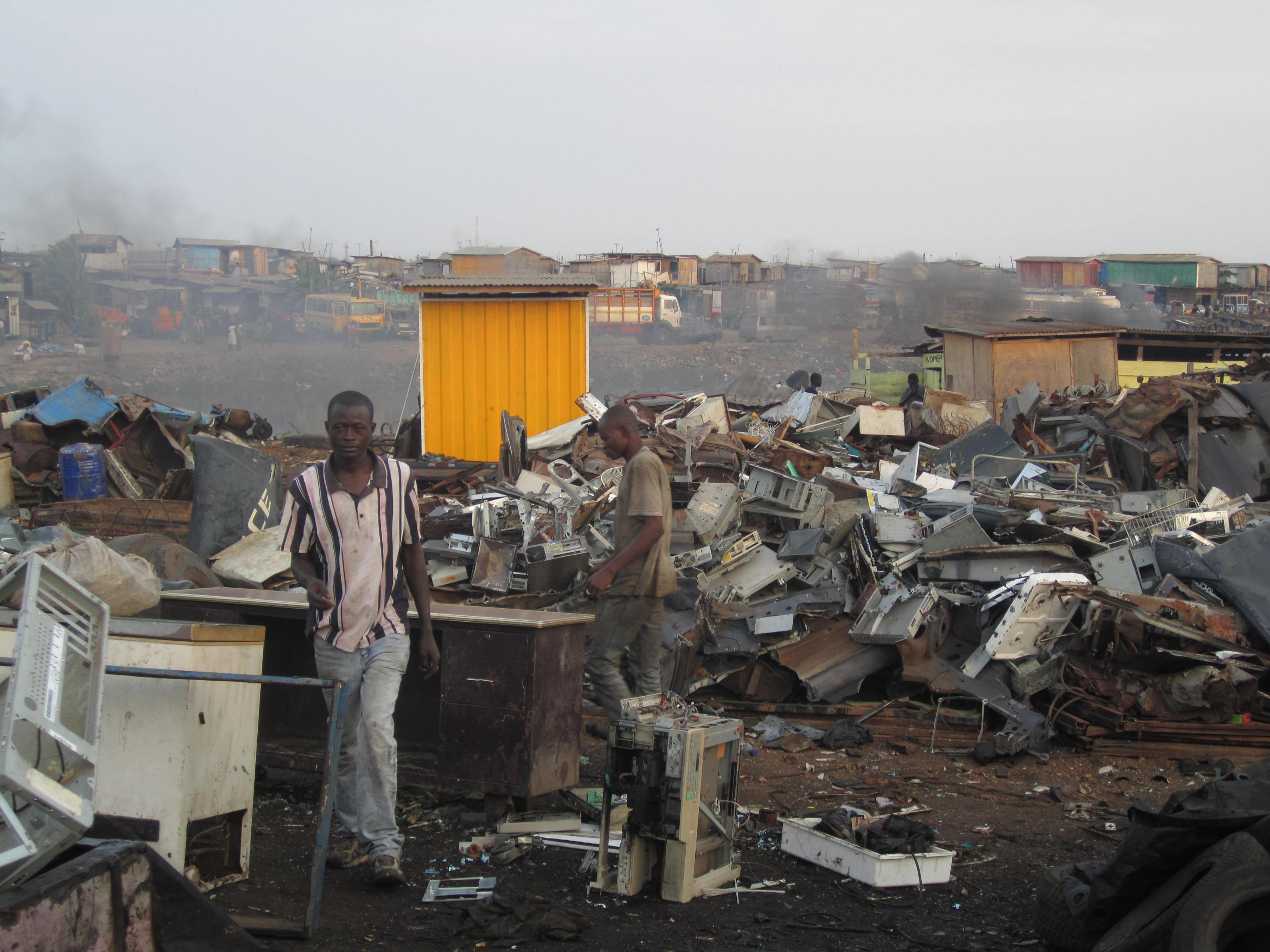 Ghanaians working in Agbogbloshie, a suburb of Accra, Ghana.